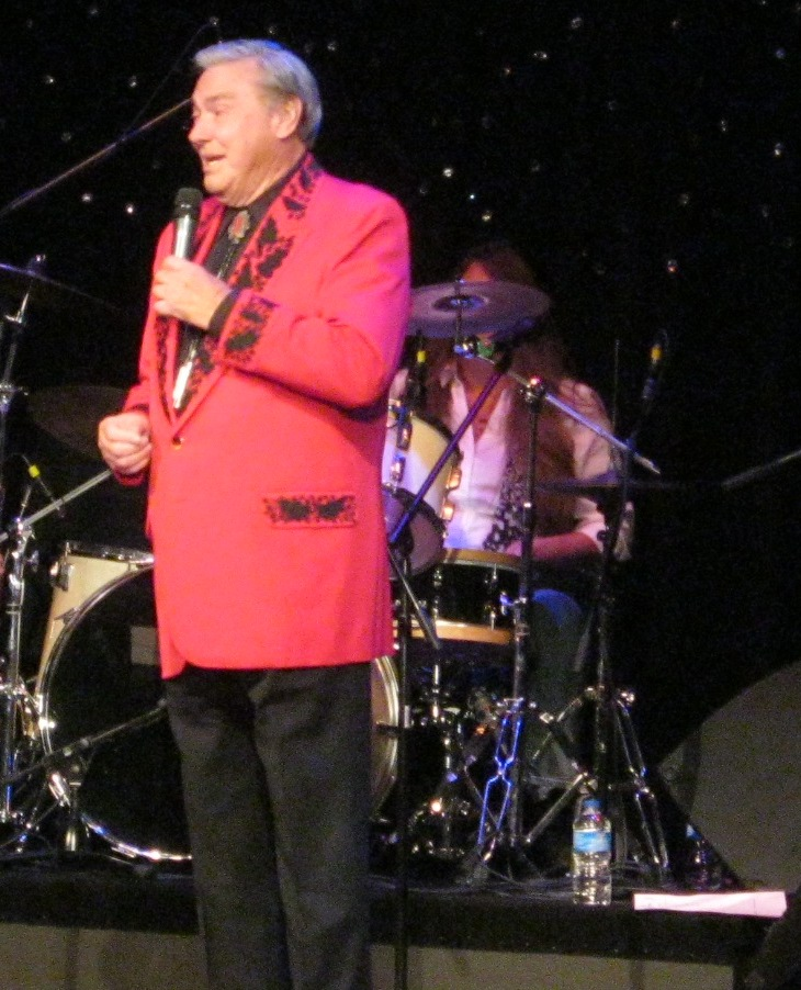 Singer Jim Ed Brown performing at Branson, Missouri.